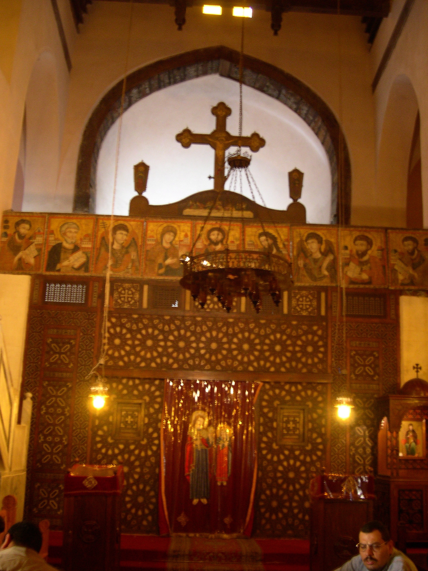 The beautiful interior of Saint Barbara's Coptic Orthodox Church in Old Cairo.